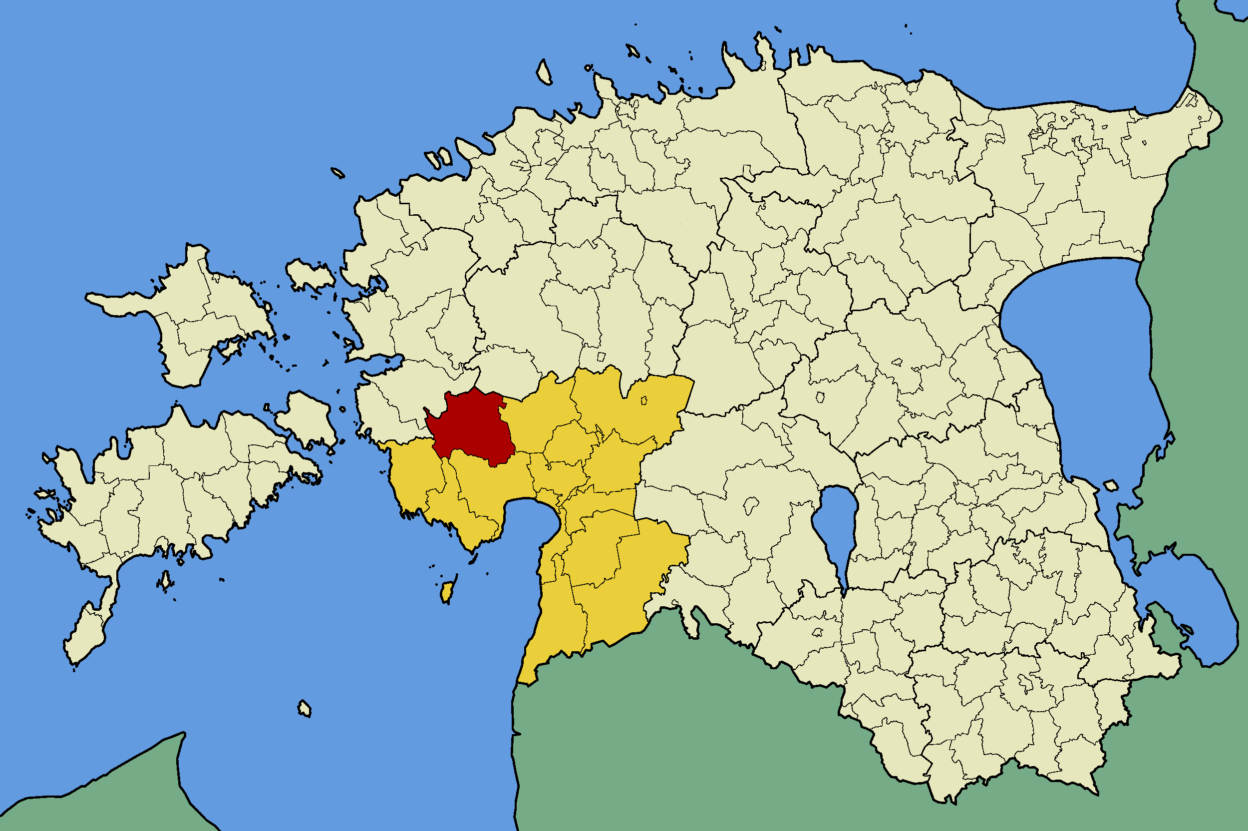 Map of Estonia with borders of municipalities (parishes). Pärnu county and Koonga municipality emphasized.